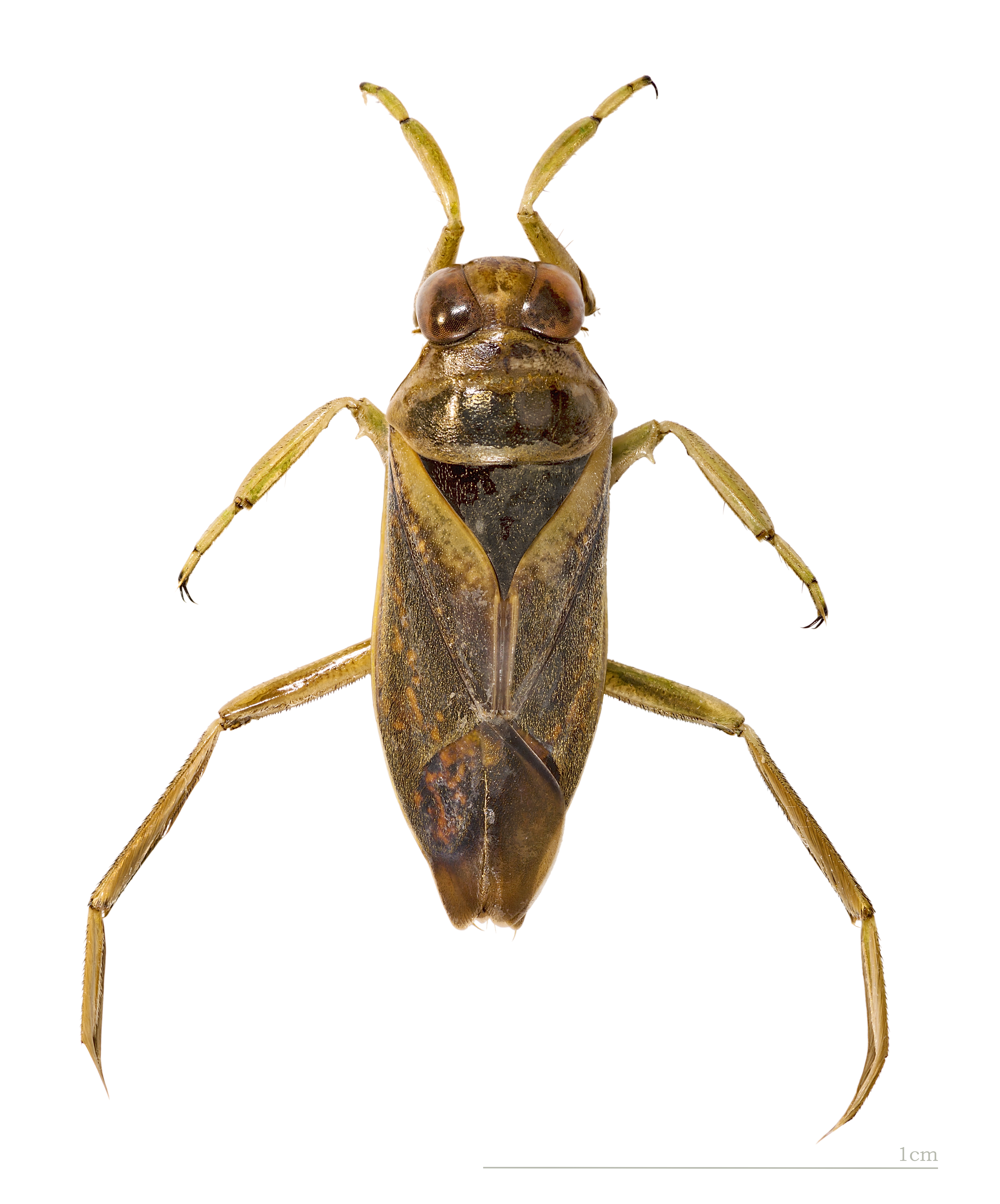 Notonecta maculata, Dorsal side